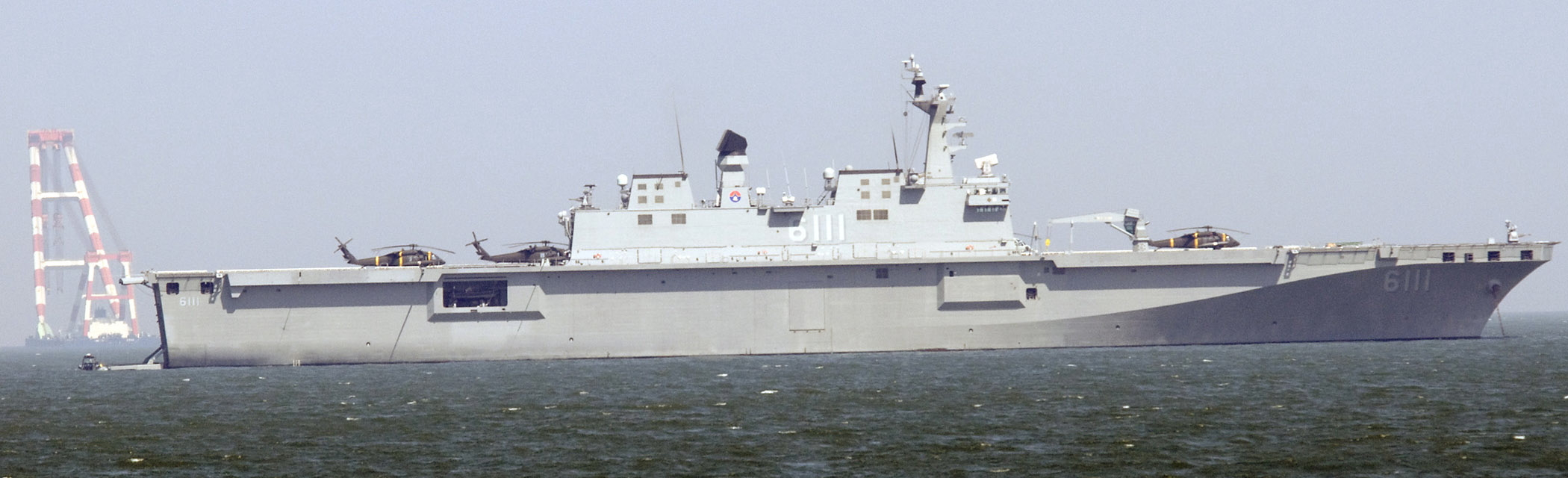 YELLOW SEA (April 7, 2010) The Republic of Korea (ROK) amphibious landing ship ROKS Dokdo (LPH 6111) passes the recovery and salvage site off the starboard side of the Military Sealift Command rescue and salvage ship USNS Salvor (T-ARS 52). U.S. Navy forces are supporting the ROK in recovery and salvage efforts for the ROK Navy frigate Cheonan, which sank March 27 in the Yellow Sea near the western sea border with North Korea. The forces include the USNS Salvor, USS Harpers Ferry, and USS Curtis Wilbur. (Cropped U.S. Navy photo by Mass Communication Specialist 2nd Class Byron C. Linder)